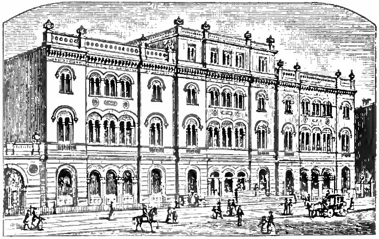 Drawing of the Astor Library of New York City. Astor Library was one of the foundations of the New York Public Library; the building itself is now the Public Theatre.